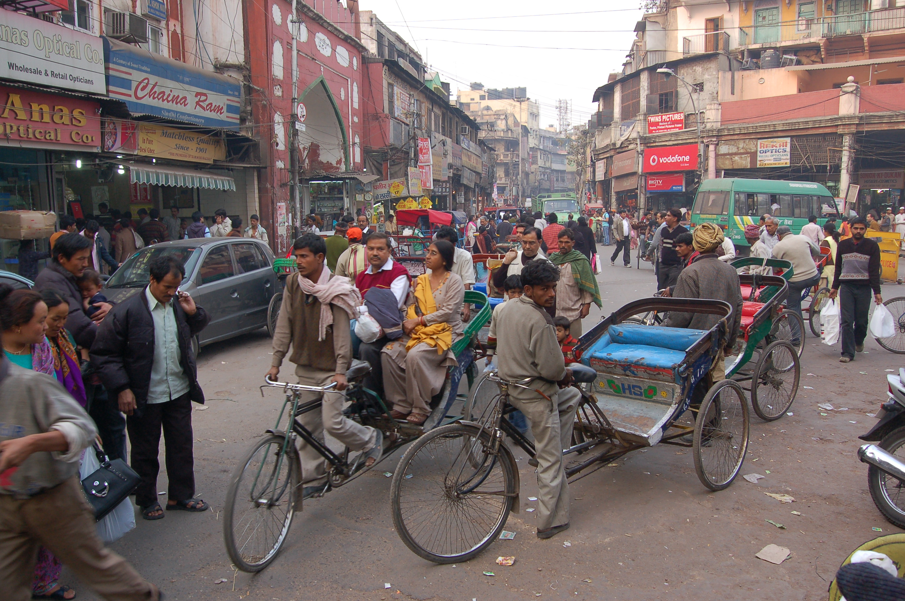 Street scene looking north across the intersection between Khari Baoli Road and the western end of Chandni Chowk Road in Chandni Chowk, Delhi, India. The gateway at left is the eastern entrance to Fatehpuri Masjid.